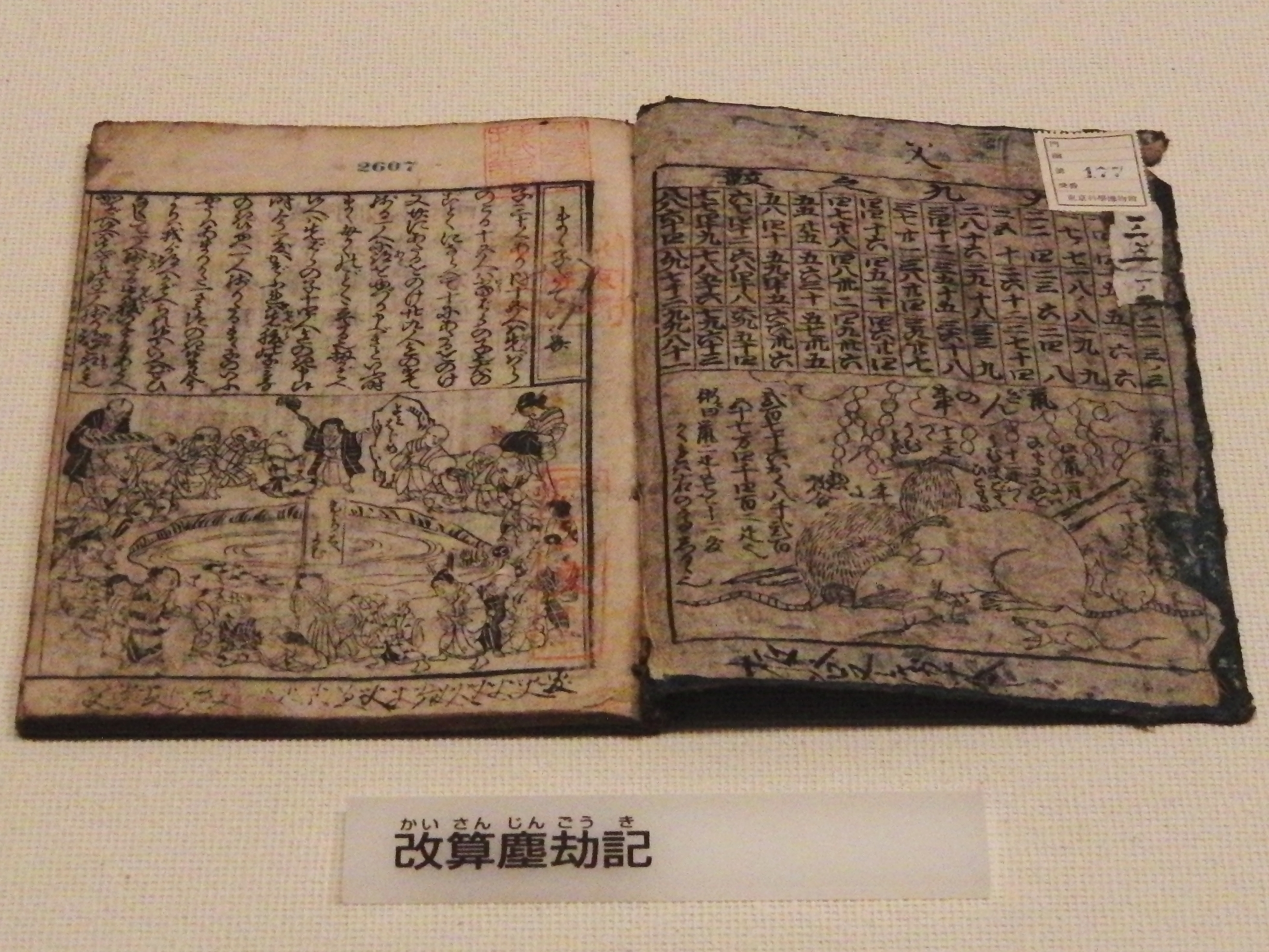 "Kaisan Jingouki". The mathematics document of the Edo period. Exhibit in the National Museum of Nature and Science, Tokyo, Japan.